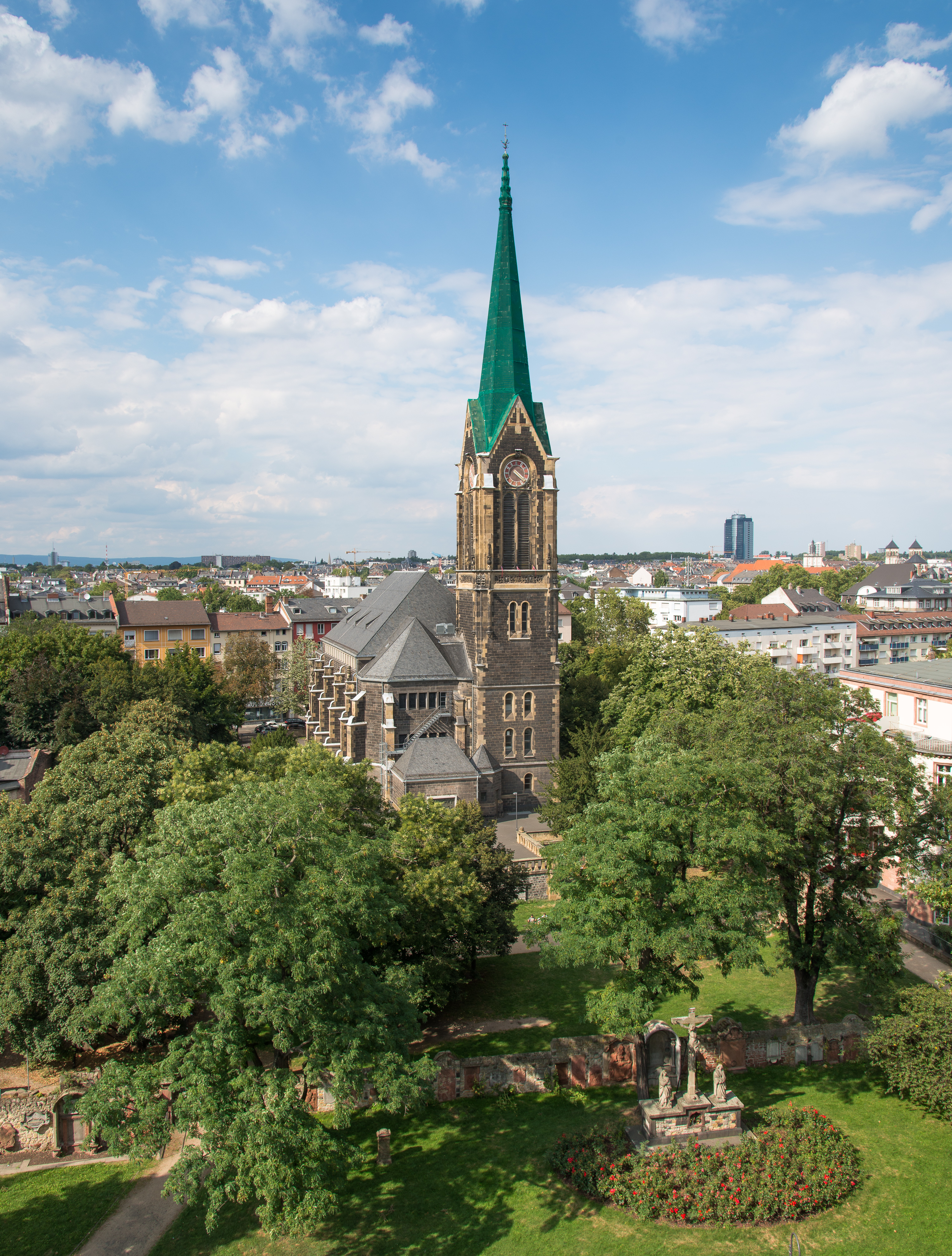 Frankfurt am Main, Peterskirche and Peterskirchhof, as seen from South (elevated).